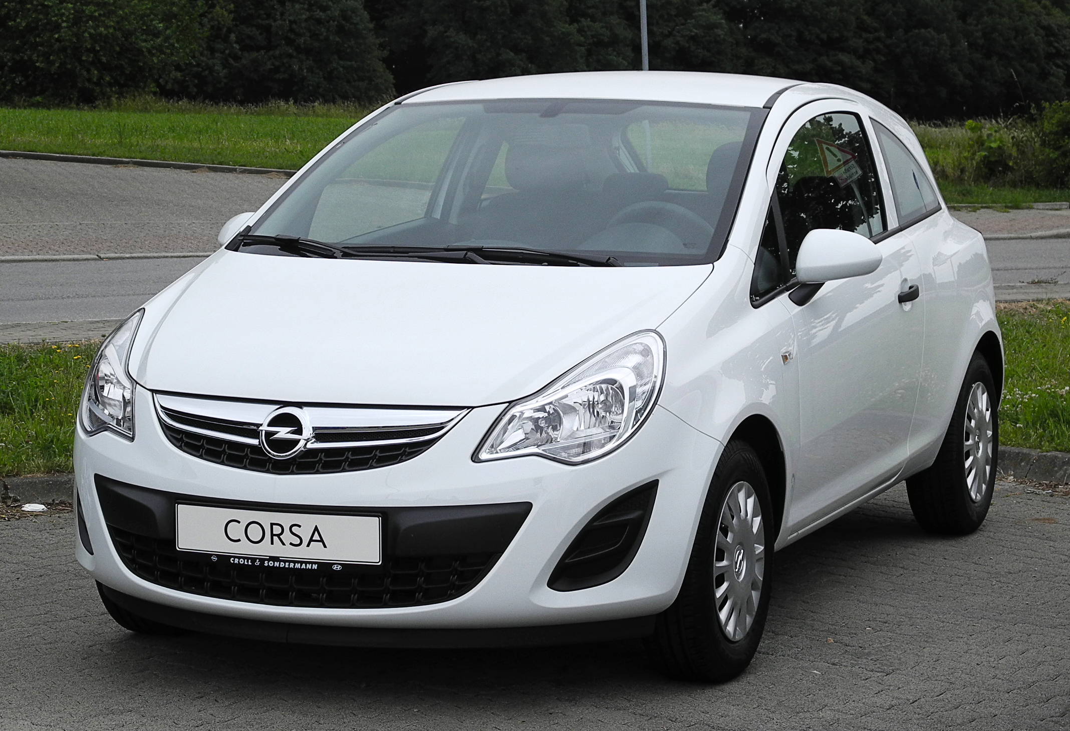 Opel Corsa 1.2 ecoFLEX Selection (D, Facelift)